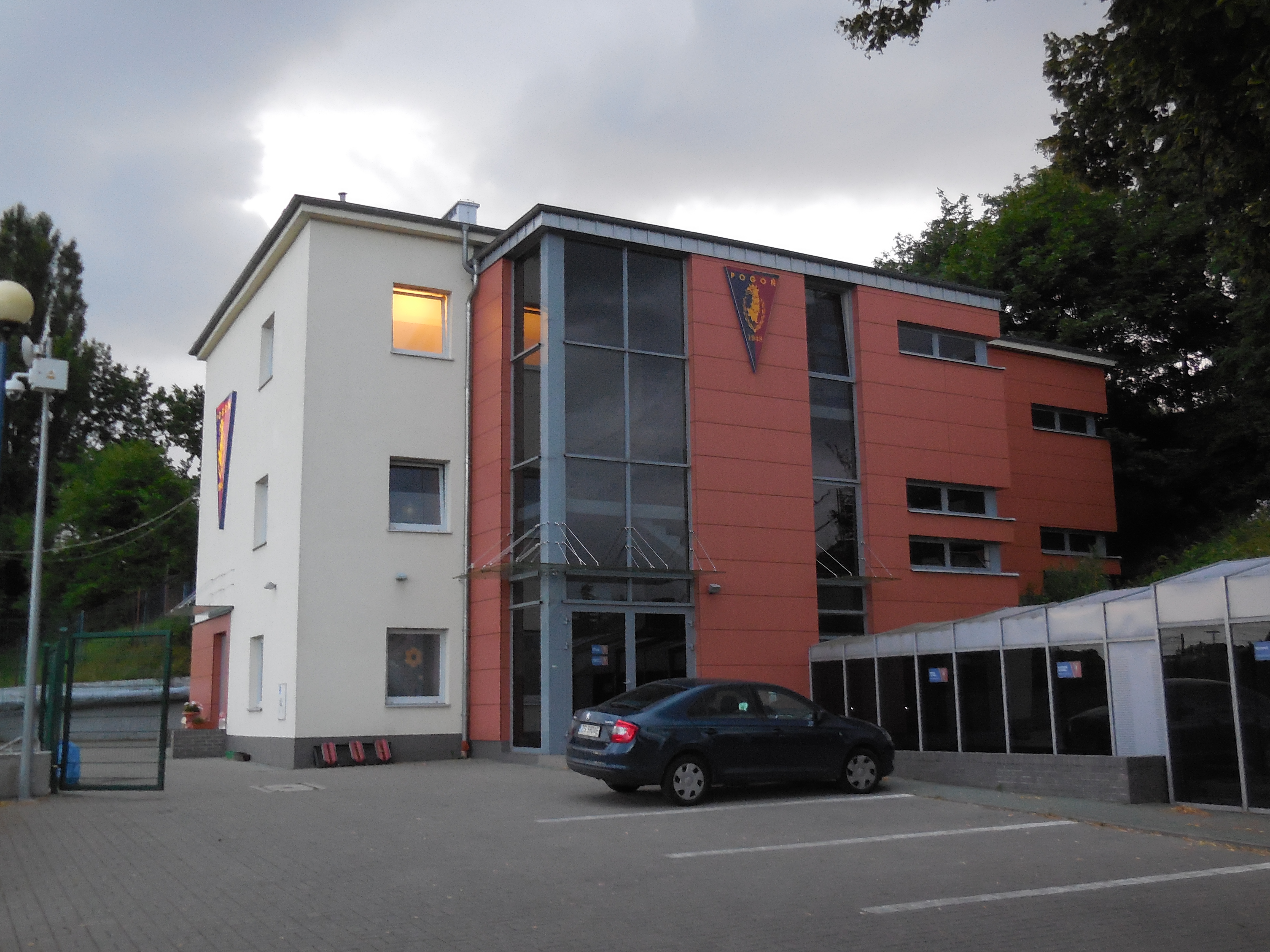 Pogon Szczecin's clubhouse, including players' tunnel (?) leading to the stadium.